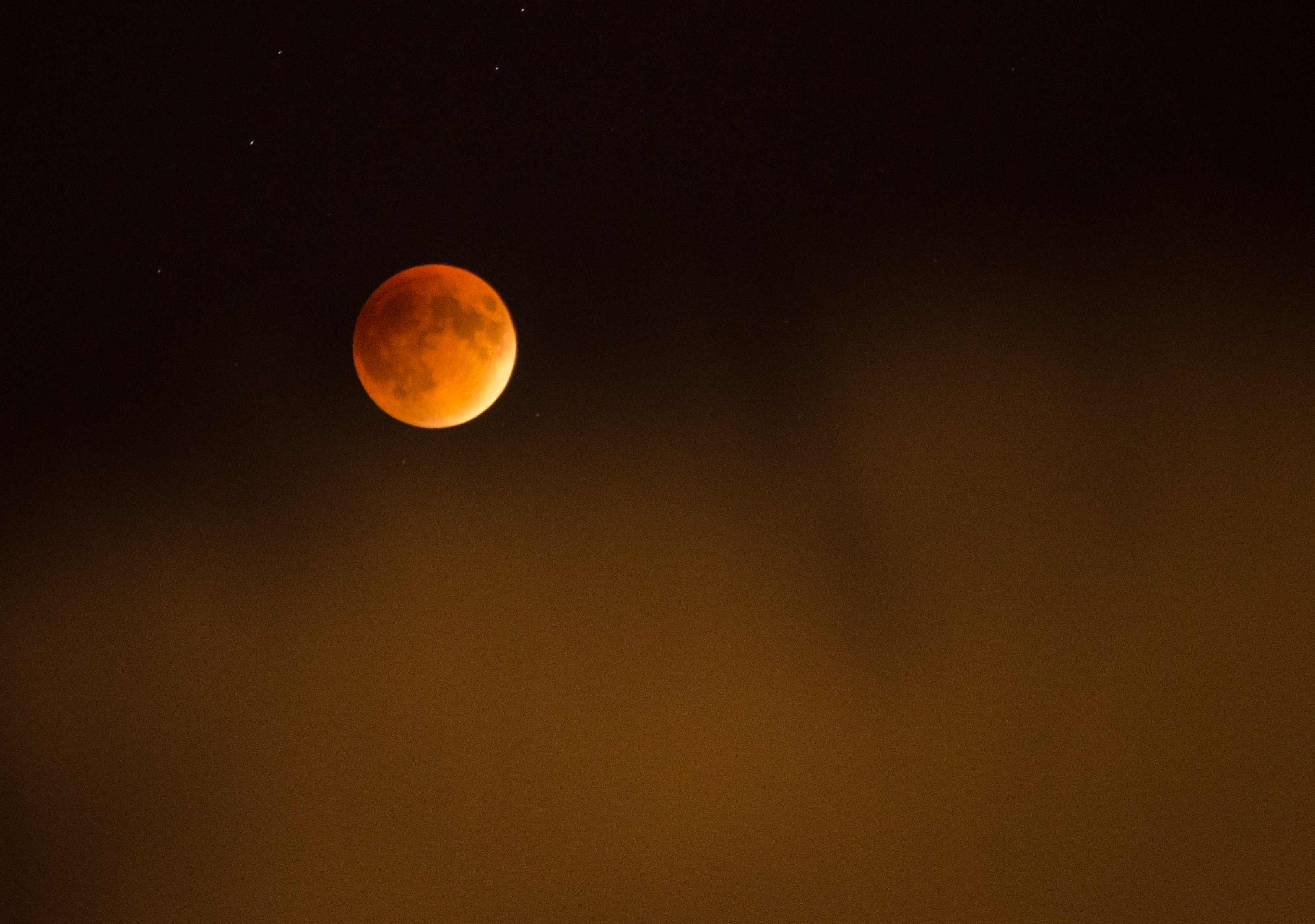 Lunar eclipse of September 28, 2015 as seen from New York.